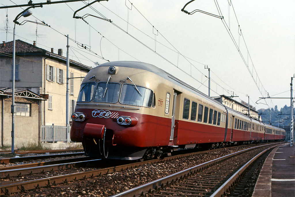 The TEE Gottardo passing through Cantù-Cermenate railway station (in northern Italy), at speed. The electric trainset in the photo is number 1051 of Swiss Federal Railways' RAe TEE II series, built in 1961 and wearing a "TEE" badge on front and rear.